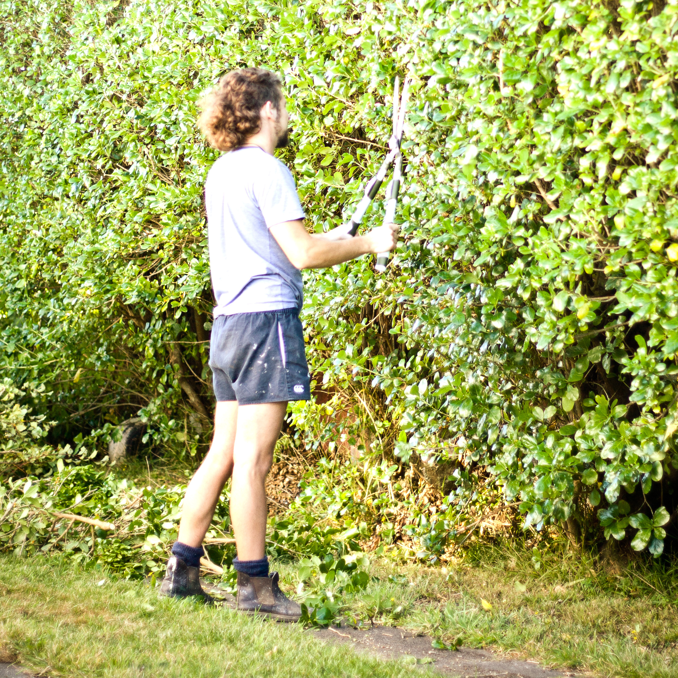 A man trimming/clipping a hedge with hedge shears (manual hedge trimmer)